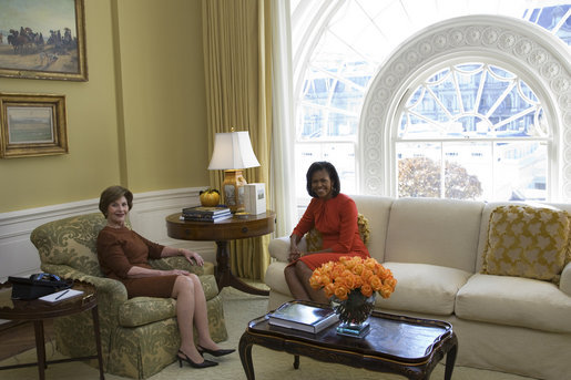 First Lady Laura Bush and Mrs. Michelle Obama sit in the private residence of the White House Monday, Nov. 10, 2008, after the President-elect and Mrs. Obama arrived for a visit.